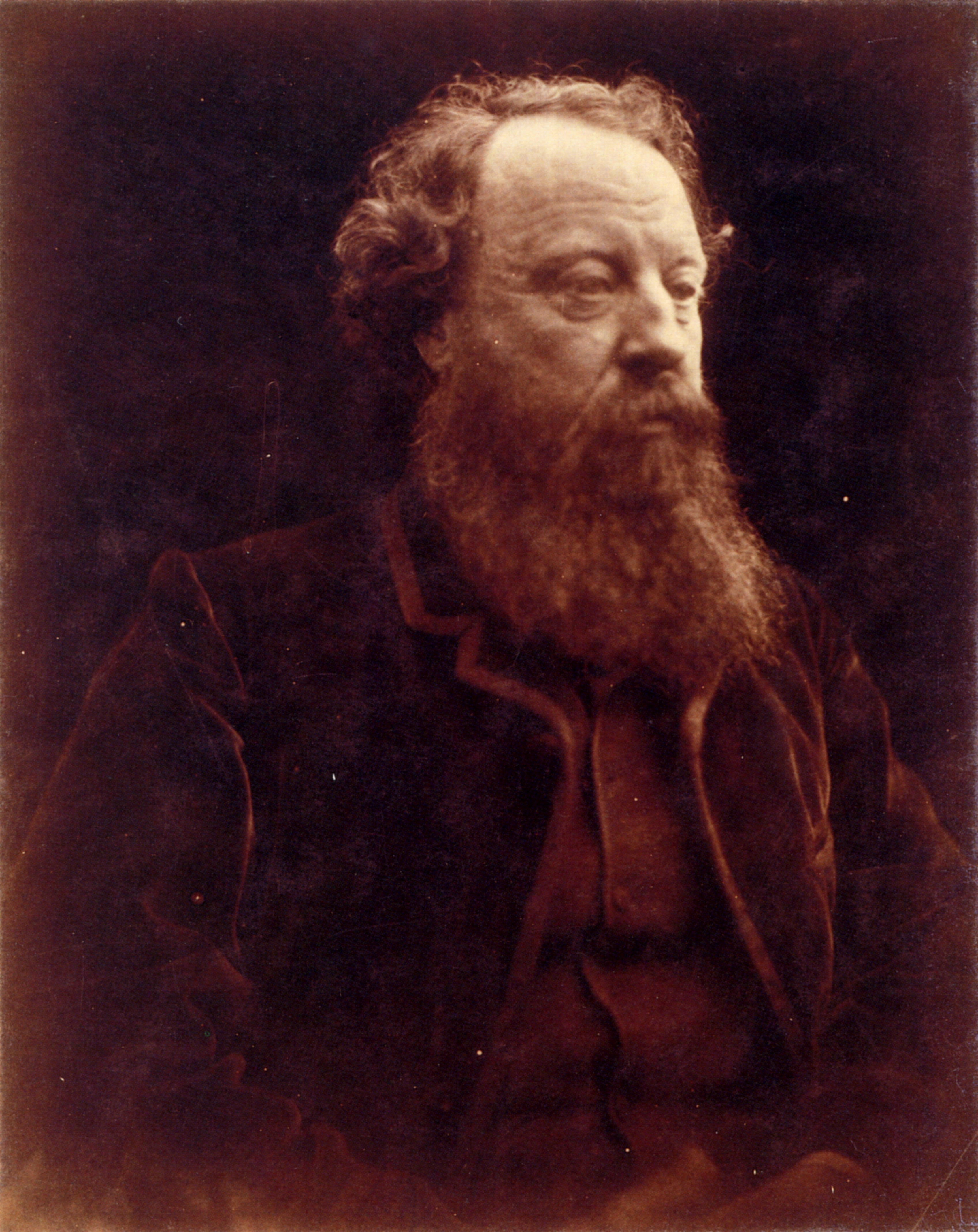 Sir John Simeon (Bart). Most likely depicts Sir John Simeon, 3rd Baronet (1815-1870), who died shortly before copyright for this photograph was registered. Albumen print, 303 x 240mm (11 7/8 x 9 1/2").